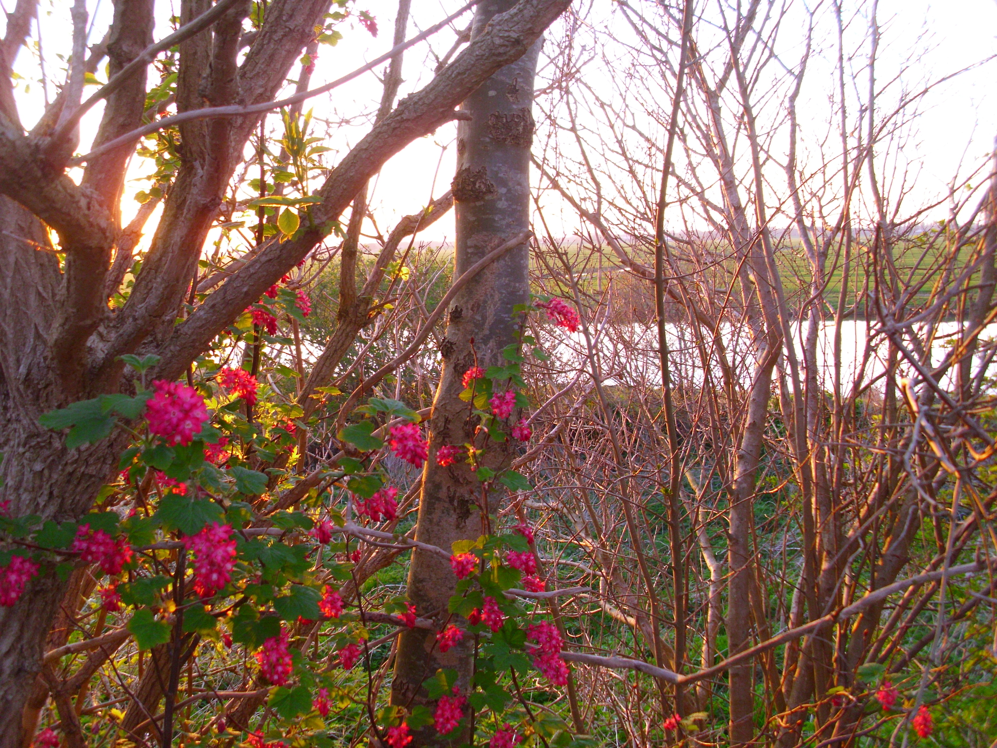 Verge beauty at dawn in april